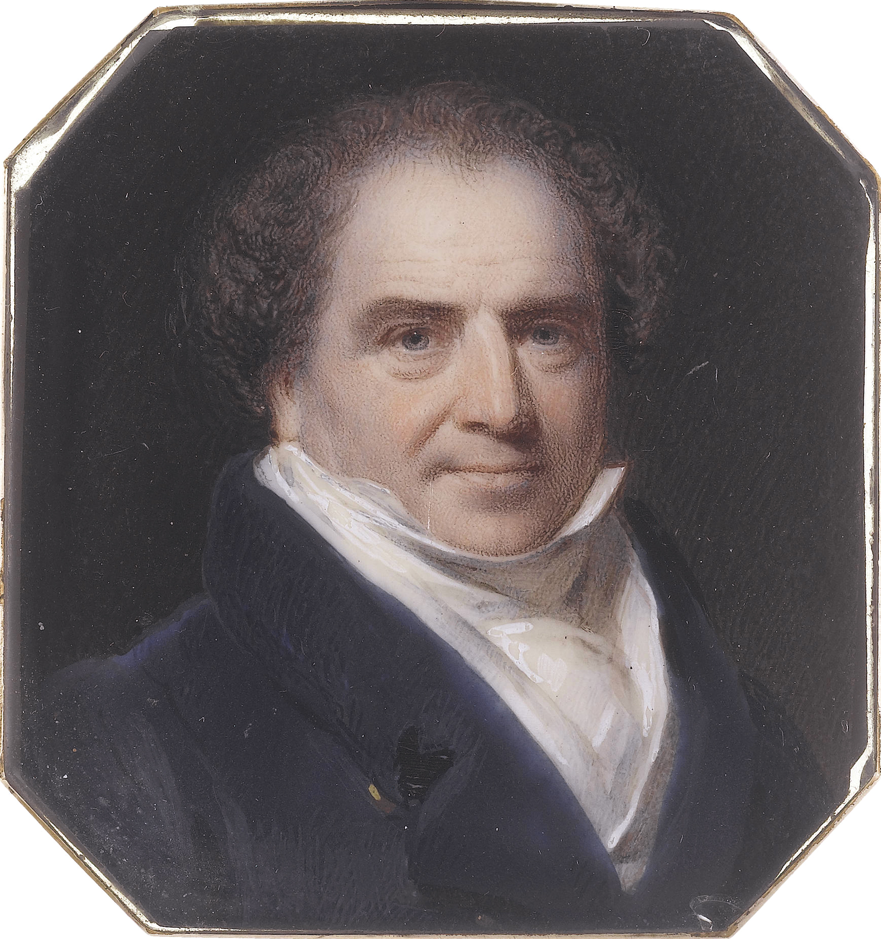 Edward Banks (1770-1835) 5.3 cm high